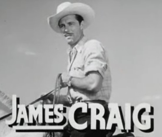 Cropped screenshot of James Craig from the trailer for the film Boy's Ranch.